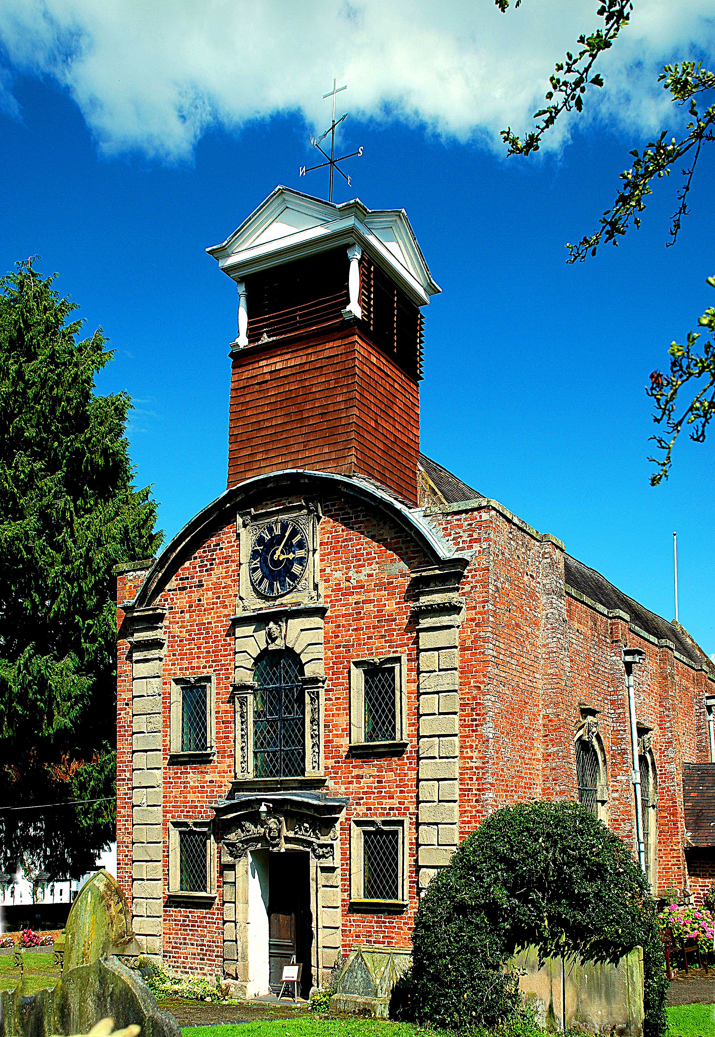 Church Of The Holy Trinity Wikidata has entry Q17540167 with data related to this item.